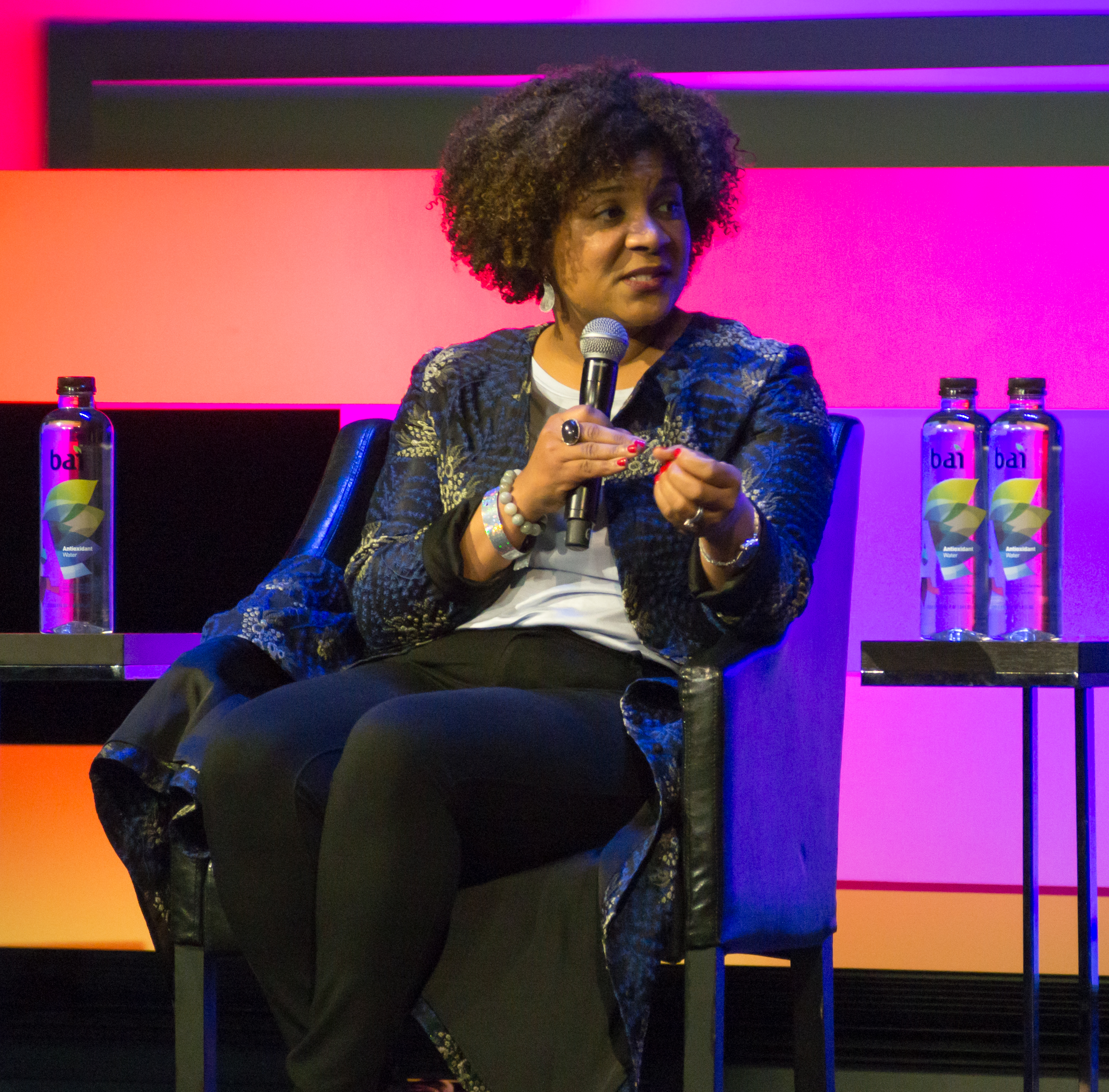 Time's Up event at the 2018 Tribeca Film Festival (Tribeca Talks: Time's Up). A series of talks/performances about Time's Up/sexual harassment. Fatima Goss Graves during the Time's Up Legal Defense Fund panel.